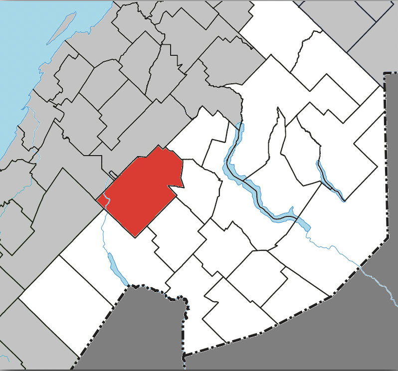 Location of Saint-Honoré-de-Témiscouata, Quebec within Témiscouata Regional County Municipality.